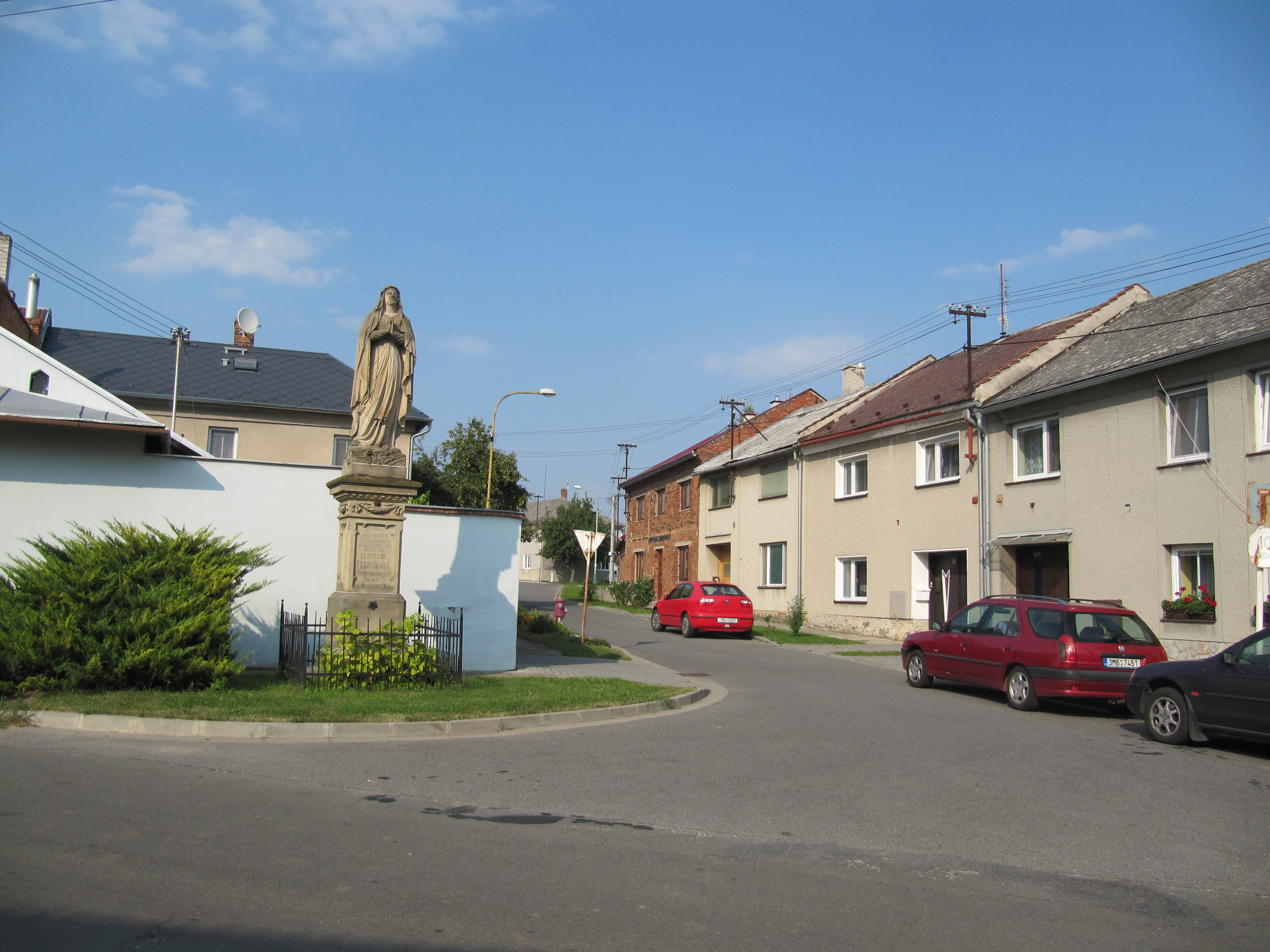 Luběnice in Olomouc District, Czech Republic. Statue of Virgin Mary.